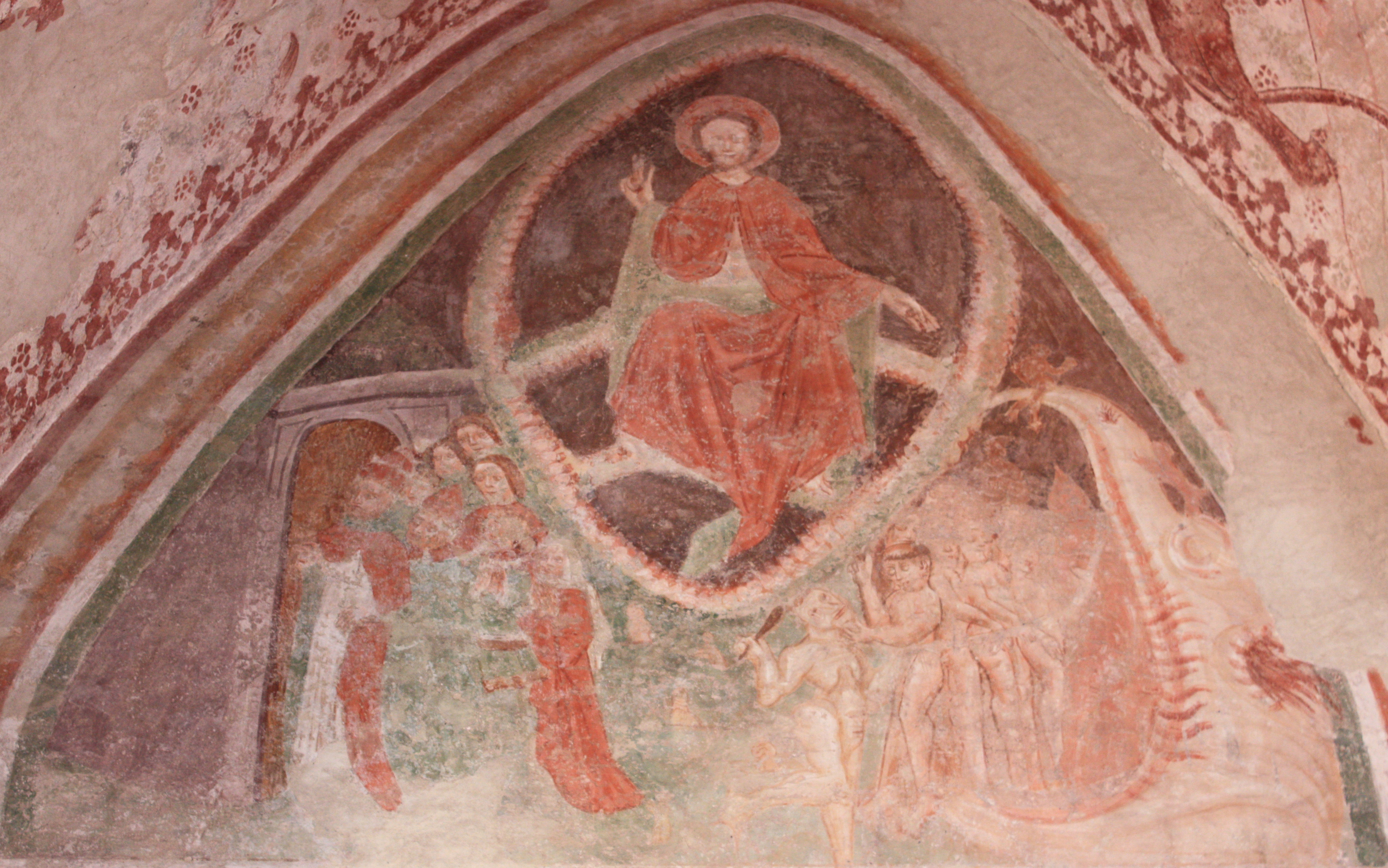 Parish church Saint Florian - Last Jugdement Locality: Rinkenberg/Vogrce Community:Bleiburg